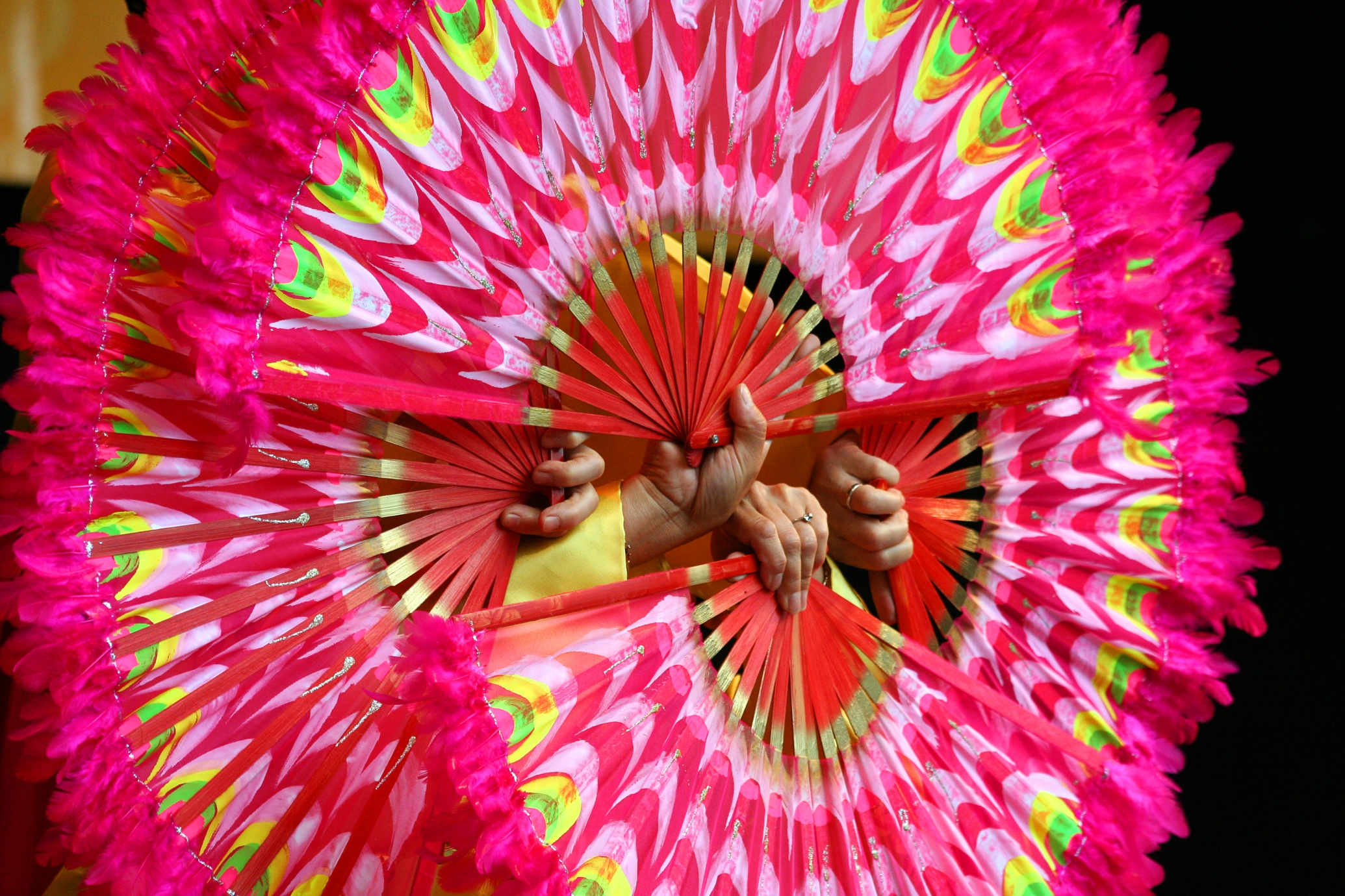 Asian fan dance